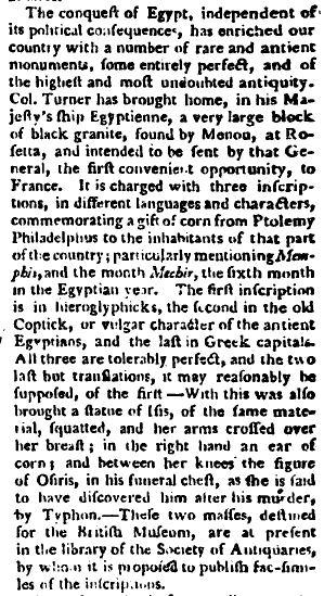 Report of the arrival of the Rosetta Stone in England.Transcript: "The conquest of Egypt, independent of its political consequence, has enriched our country with a number of rare and ancient monuments, some entirely perfect, and of the highest and most undoubted antiquity. Col. Turner has brought home, in his Majesty's ship Egyptienne, a very large block of black granite, found by Menou, at Rosetta, and intended to be sent by that General, the first convenient opportunity, to France. It is charged with three inscriptions, in different languages and characters, commemorating a gift of corn from Ptomely Philadelphus to the inhabitants of that part of the country; particularly mentioning Memphis, and the month Mechir, the sixth month in the Egyptian year. The first inscription is in hieroglyphics, the second in the old Coptick, or vulgar character of the ancient Egyptians, and the left in Greek capitals. All three are tolerably perfect, and the two last but translations, it may reasonably be supported, of the first—With this was also brought a statue of Isis, of the same material, squatted, and her arms crossed over her breast; in the right hand an ear of corn; and between her knees the figure of Osiris, in his funeral chest, as she is said to have discovered him after his murder, by Typhon.—These two masses, destined for the British Museum, are at present in the library of the Society of Antiquaries, by whom it is proposed to publish facsimiles of the inscriptions."